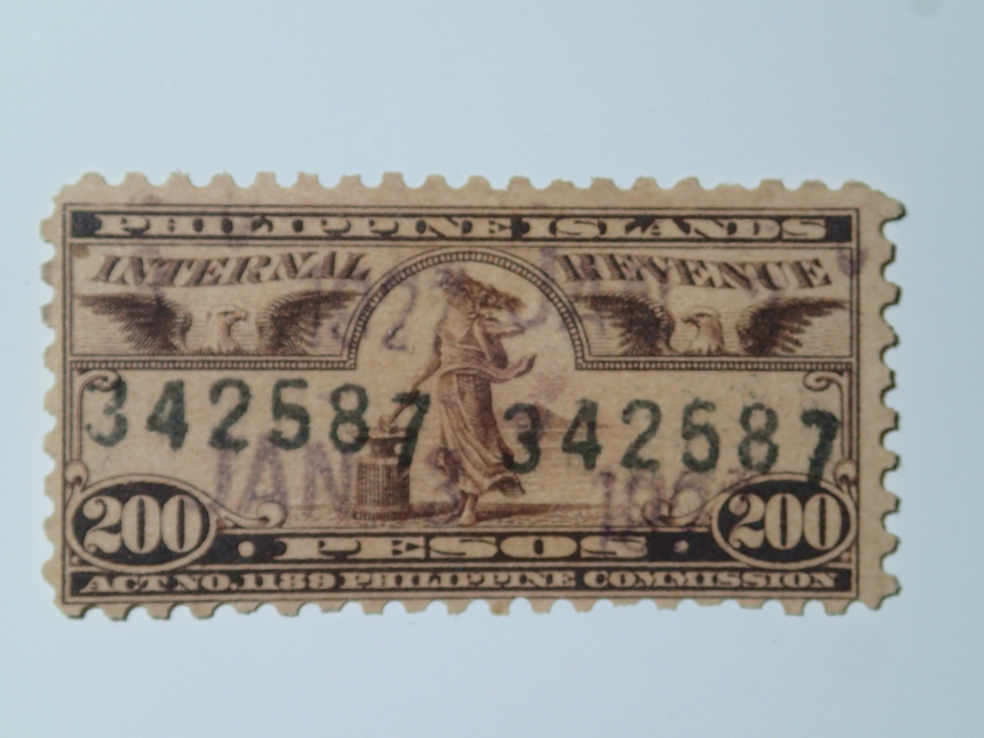 U.S. Territory of Philippine Islands Revenue 1907 200 Peso Warren #W-560 Warren, Arnold H. (April 1968). "Fiscal Stamps of the Philippines: Handbook-Catalogue, 1856 to date". American Philatelist 82: 330. American Philatelic Society.